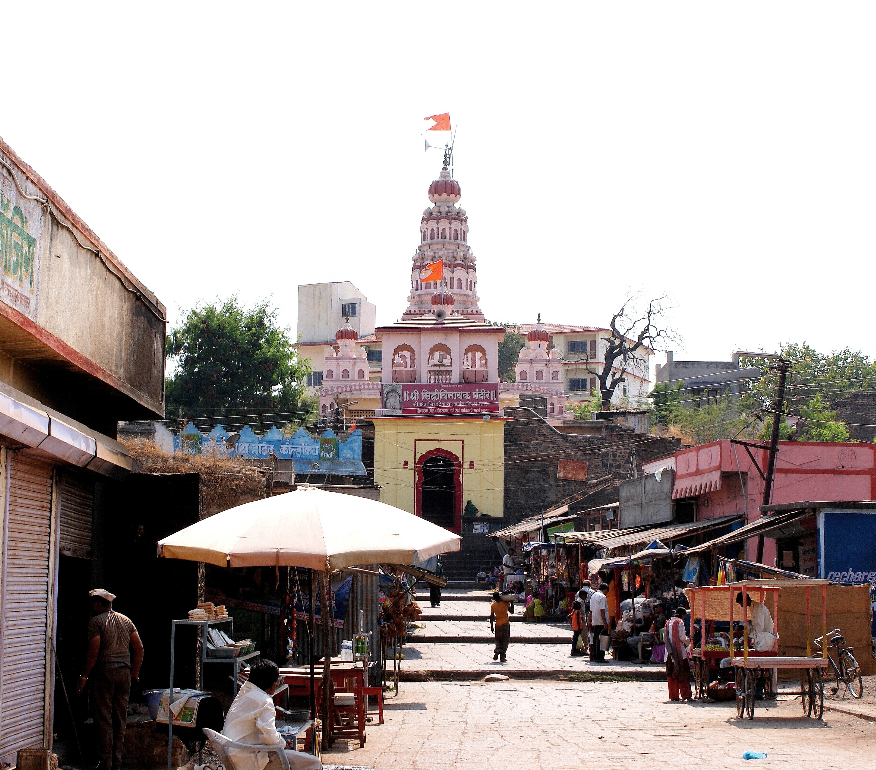 Looking up the street at Siddhi Vinayak in the village of Siddhatek, which is situated on the banks of Bhima River.